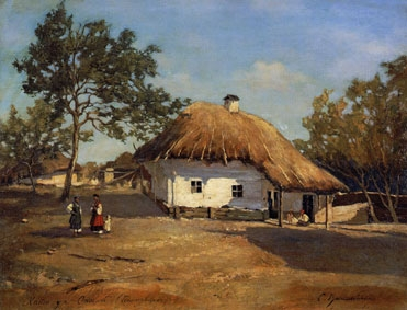 House in Opishnya, artist S. Vasylkivskyy